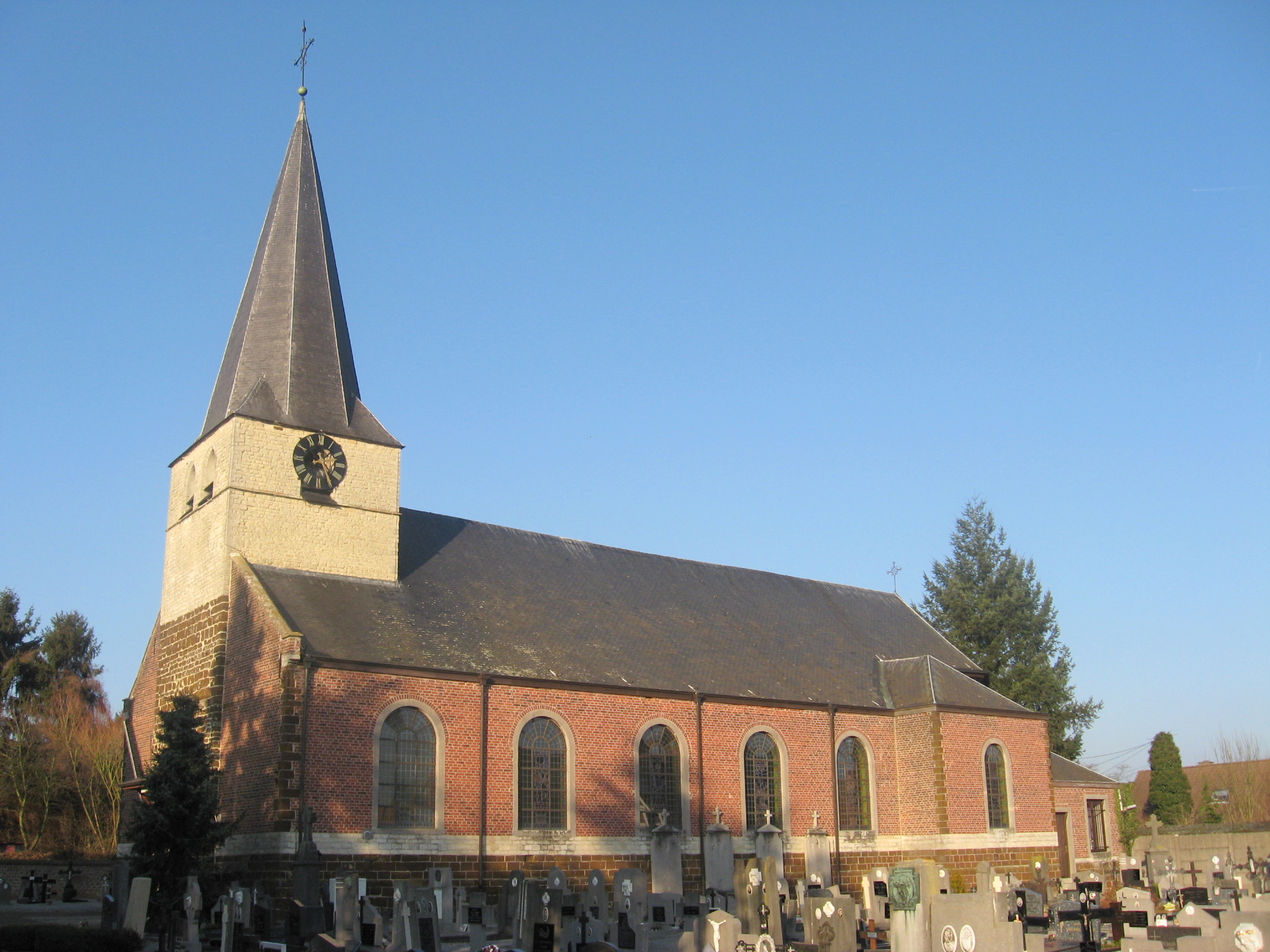 Church of Saint Denis in Houwaart, Tielt-Winge, Flemish Brabant, Belgium